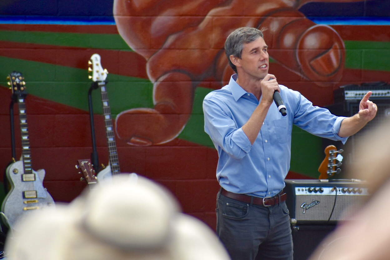 Beto Rally at the Pan American Neighborhood Park, Austin